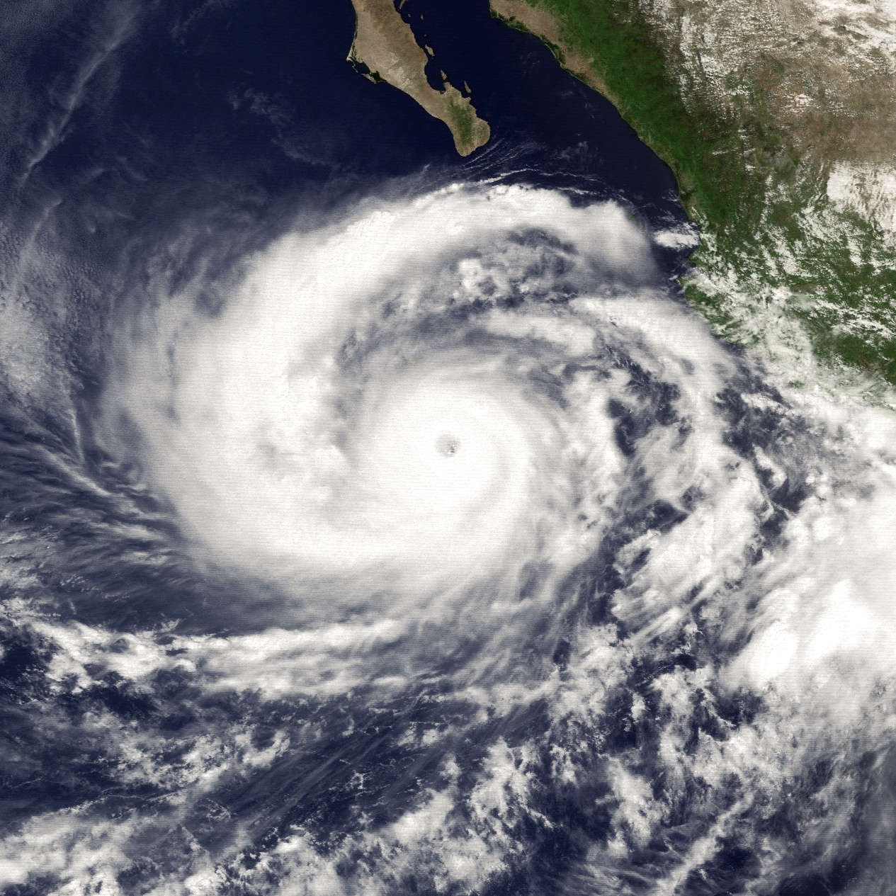 Category 4 Hurricane Olivia at peak intensity in the eastern Pacific on September 21, 1982 at 18:30 UTC.